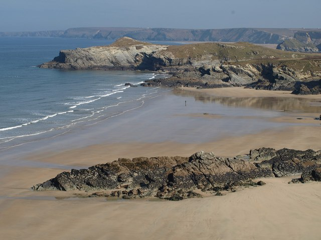 Lusty Glaze. A detail of the scnee in 1759025, from the same spot, with a figure standing on the reflective wet sand of the beach. Beyond again is Trevelgue Head, in SW8263.